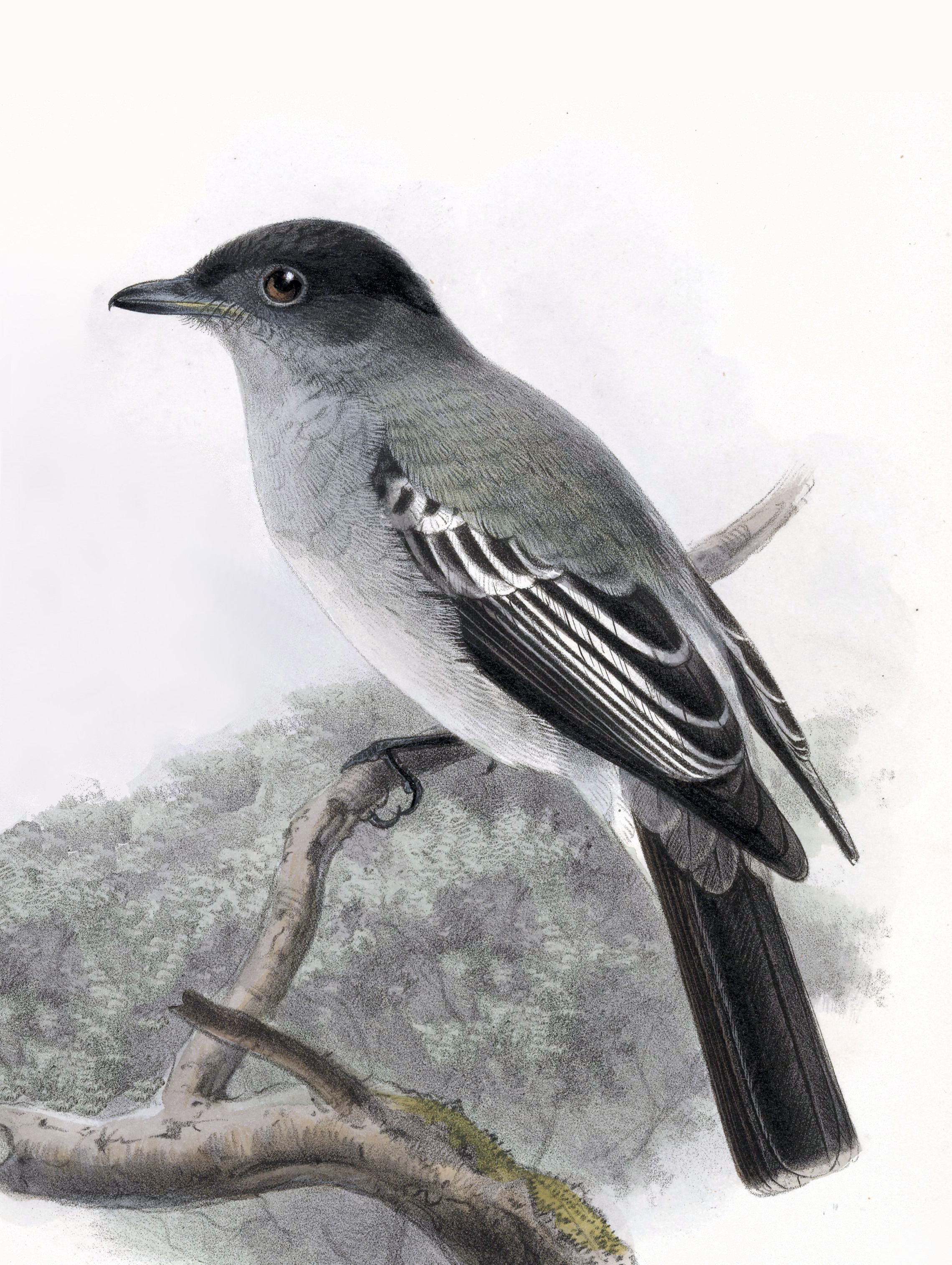 « Sirystes albogriseus » = Sirystes albogriseus (Western Sirystes)